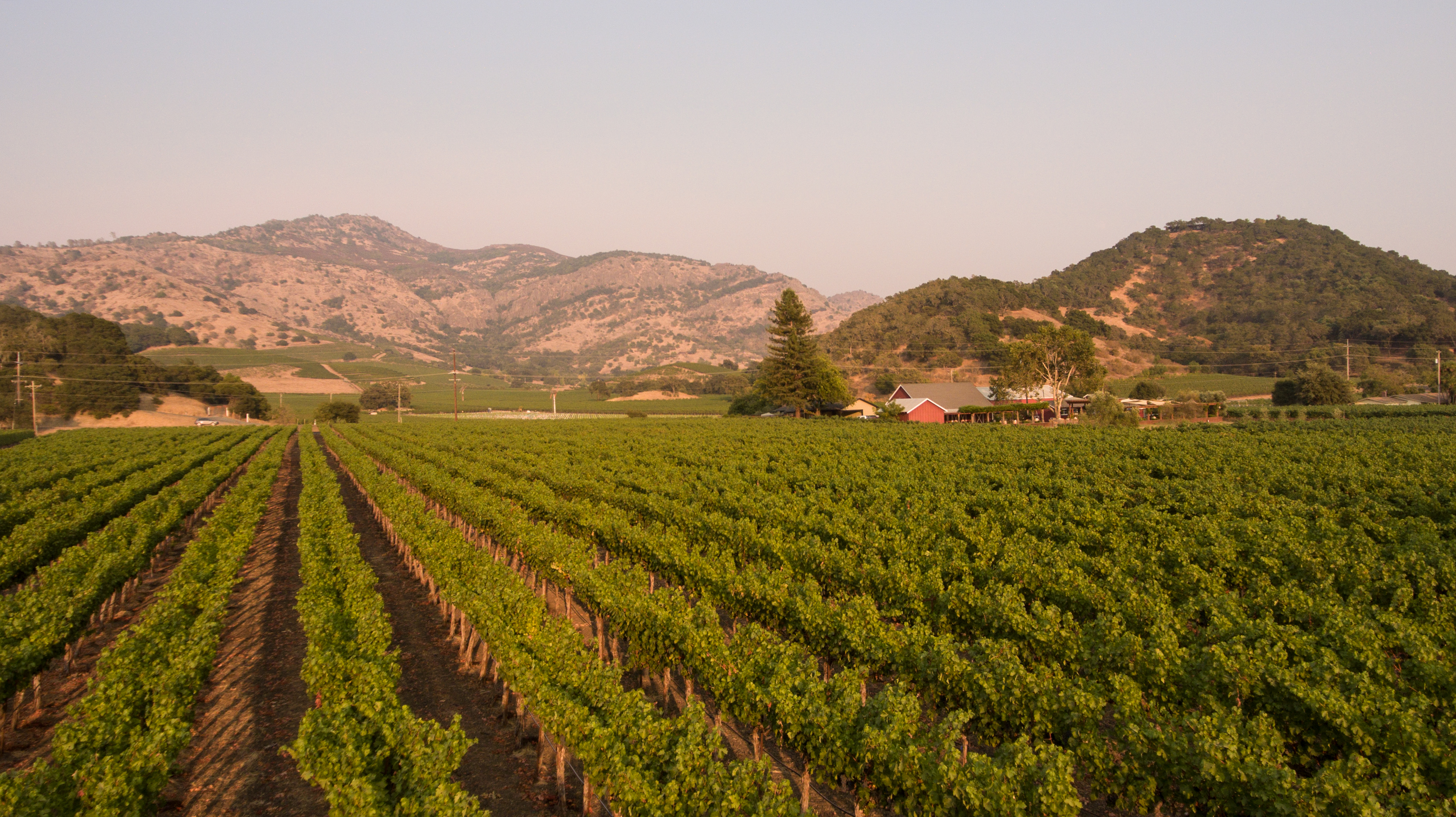 View east from the Stags Leap District estate vineyard